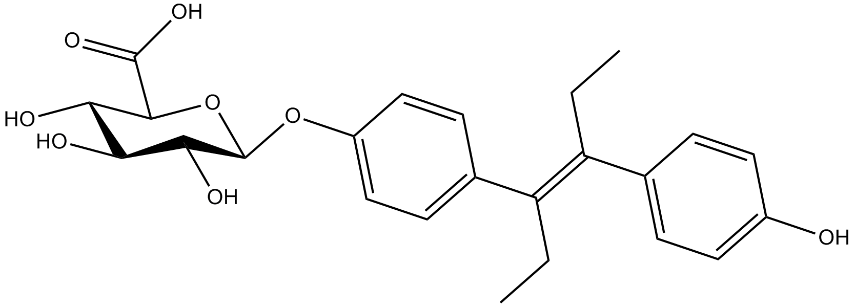 DES conjugated with glucuronic acid